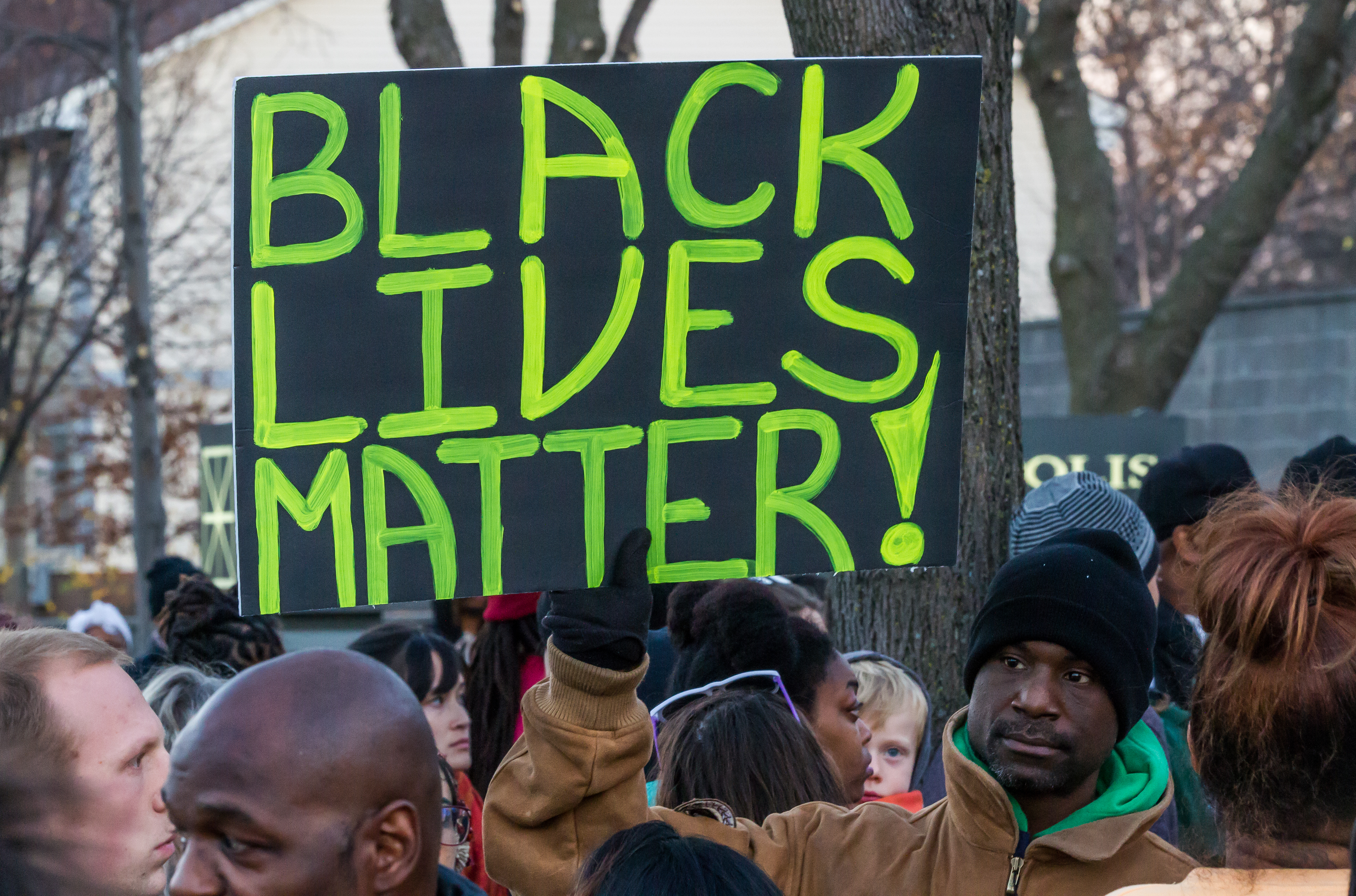 An activist holds a "Black Lives Matter" signs outside the Minneapolis Police Fourth Precinct building following the officer-involved shooting of Jamar Clark on November 15, 2015. Photo: Tony Webster Creative Commons: You can use this photo with attribution. All photos from November 15, 2015 community and police press conferences, protest, and community listening session.